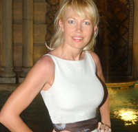 Photo taken of Tanya Ryno at Versace Mansion